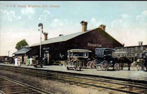 Grand Trunk railway station in Brighton, ON shown on a post card circa 1910.